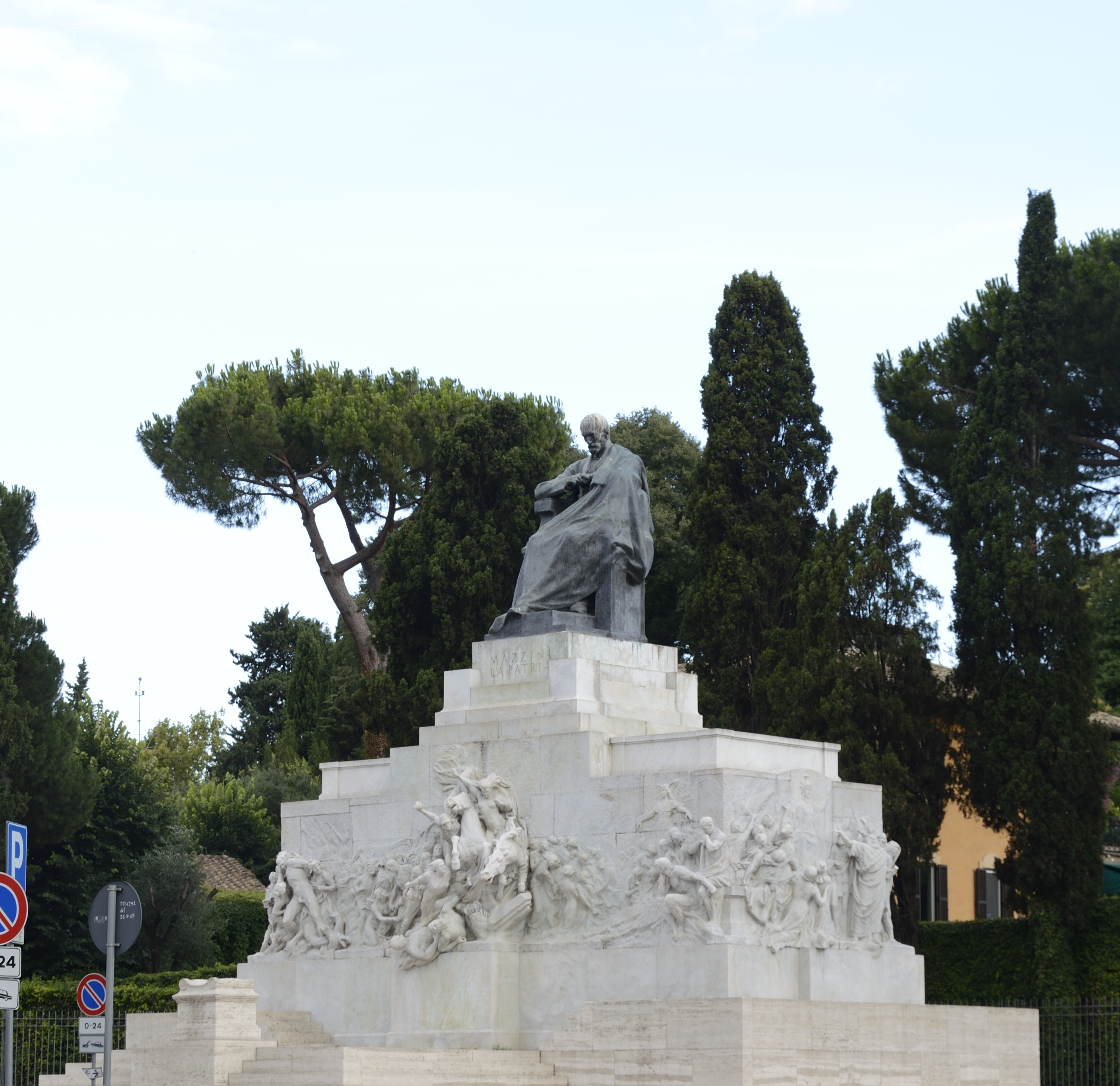 Statua mazzini aventino